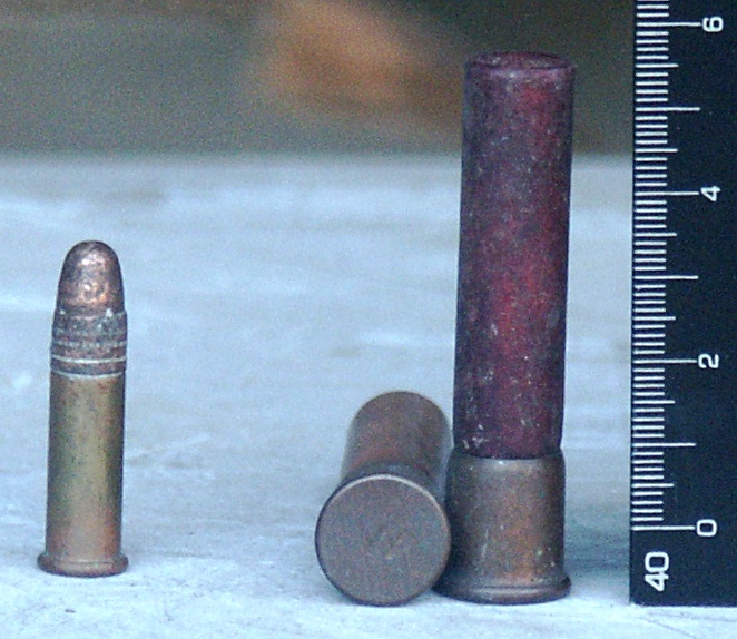 9 mm shotshells with .22 long rifle for comparison